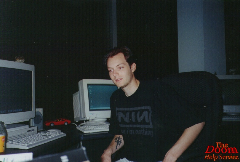 American McGee as photographed by Ian Mapleson at id Software during a trip taken there starting on October 6, 1995. Permission granted to use under terms of CC BY-SA 4.0 with attribution to Ian Mapleson, administrator of the Doom Help Service at